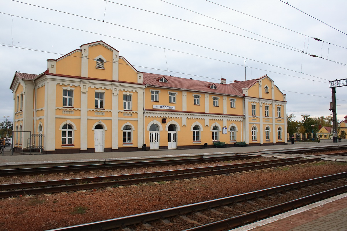 Yahotyn train station